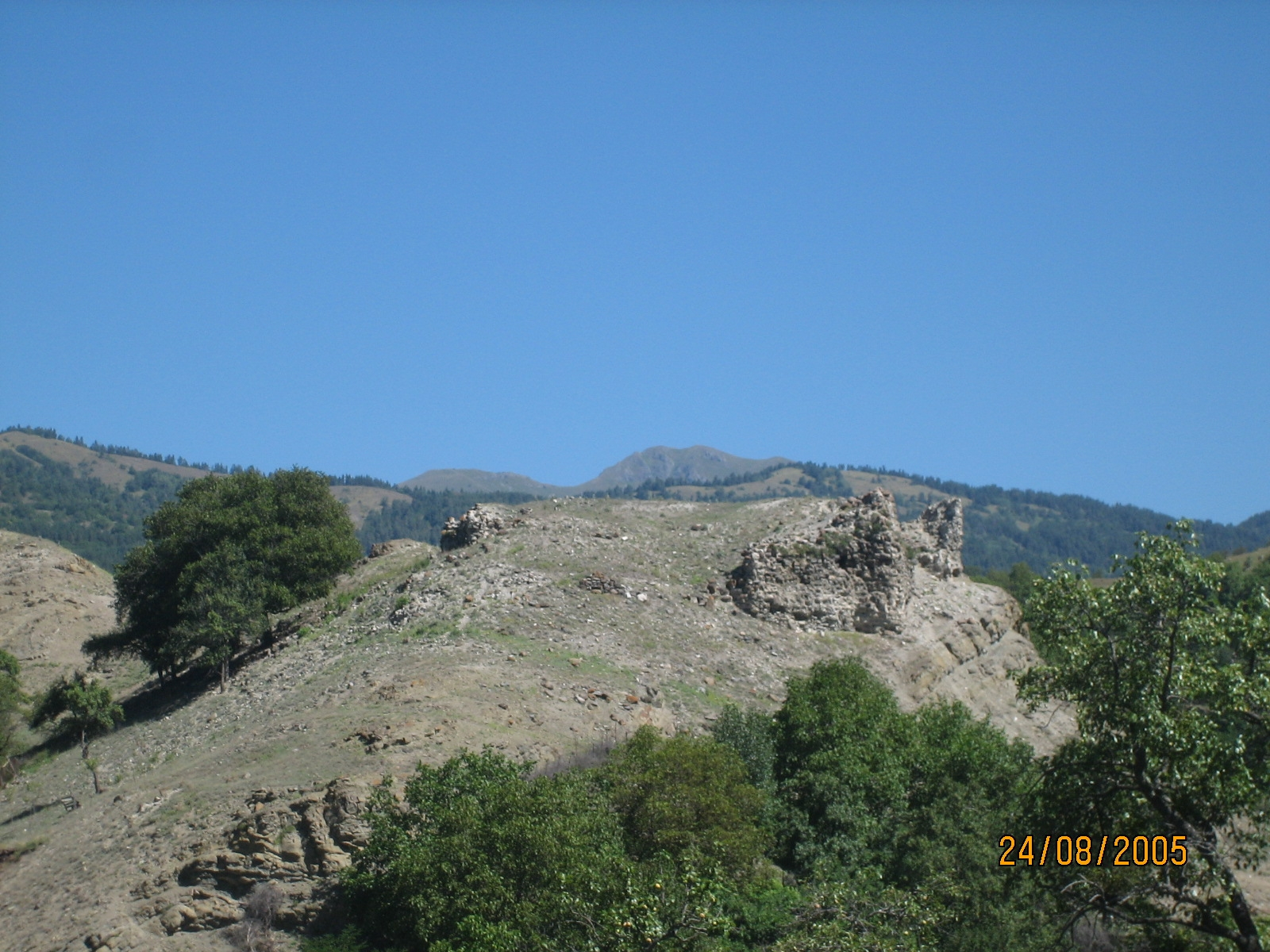 Ruins of the Oti Fortress, Samtskhe-Javakheti, Georgia.